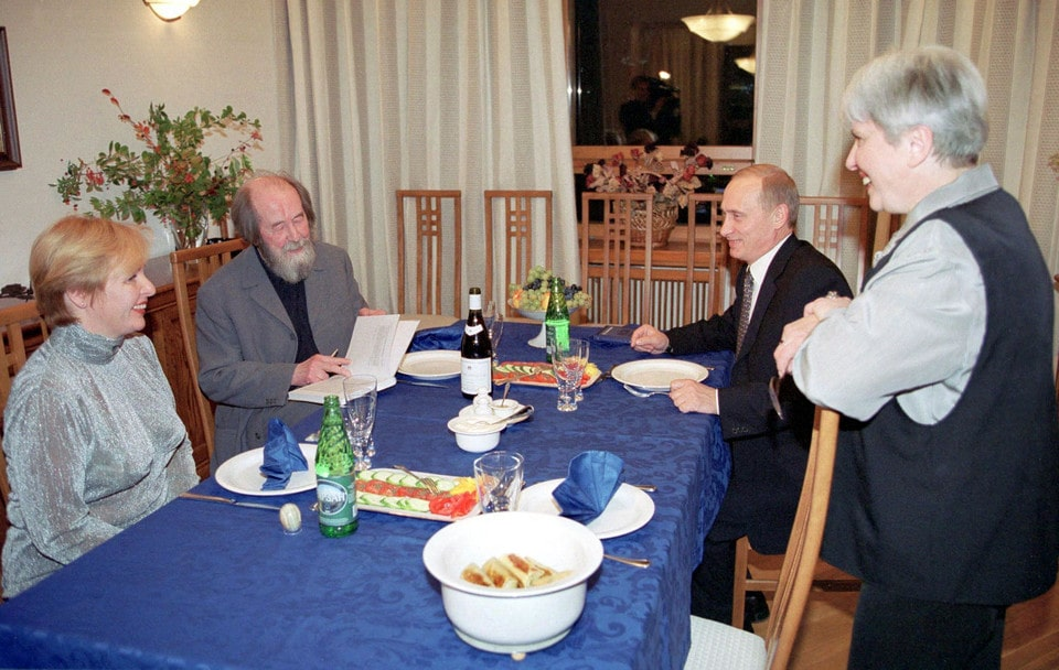 TROITSE-LYKOVO, MOSCOW. Vladimir Putin and Lyudmila Putin at the home of Alexander Solzhenitsyn and Natalya Solzhenitsyn.